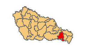 Location of municipality inside Međimurje County